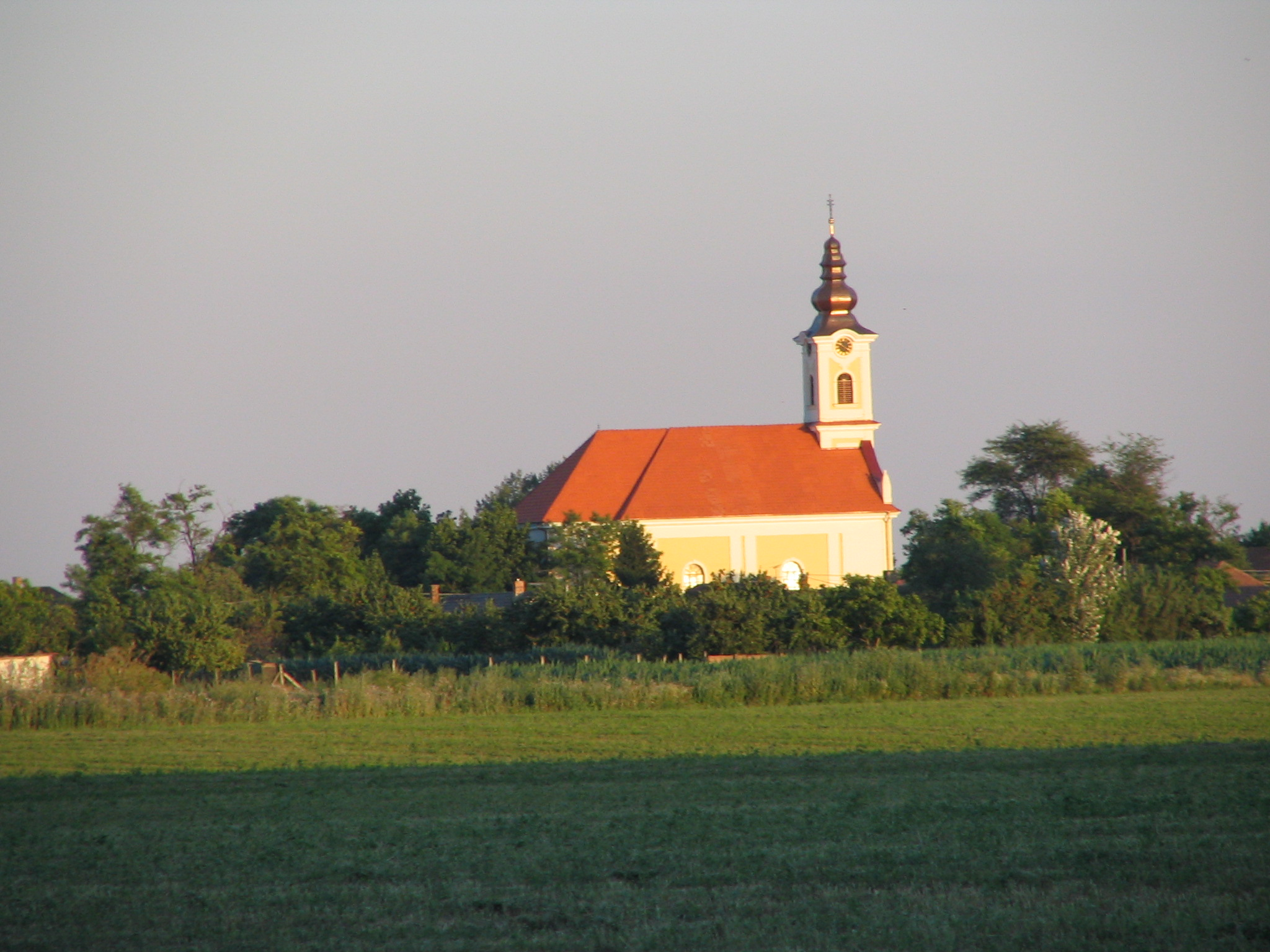 Egyházkarcsa (Kostolné Kračany), Slovakia